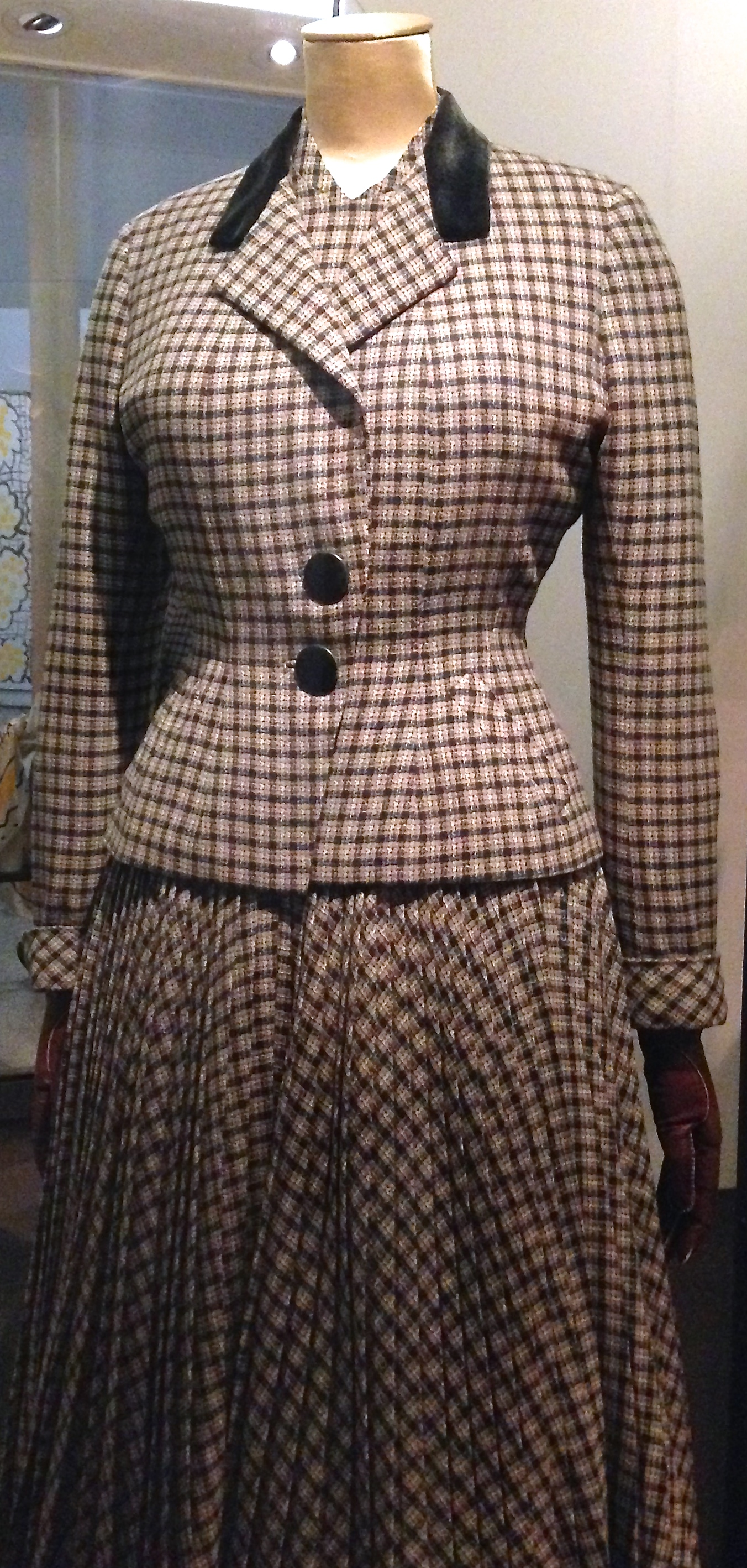 Digby Morton jacket and dress, part of the V&A archive. Digby Morton (1906-1983) was an Irish couture designer who worked at Lachasse, established his own label and had considerable success in both the UK and US – in the US he was known as 'Daring Digby'. He was a founder member of the Incorporated Society of London Fashion Designers and would later pioneer ready-to-wear fashions